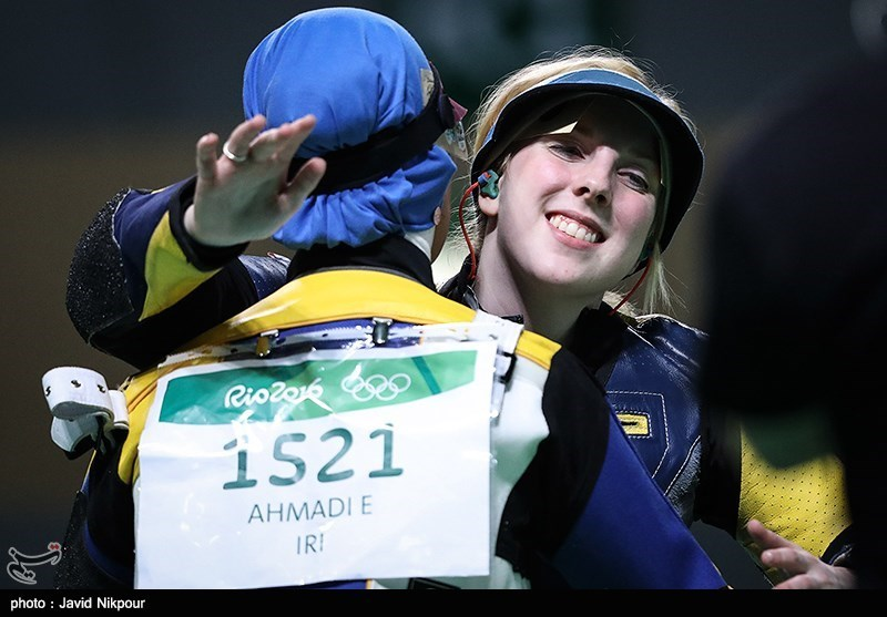 Shooting at the 2016 Summer Olympics – Women's 10 metre air rifle